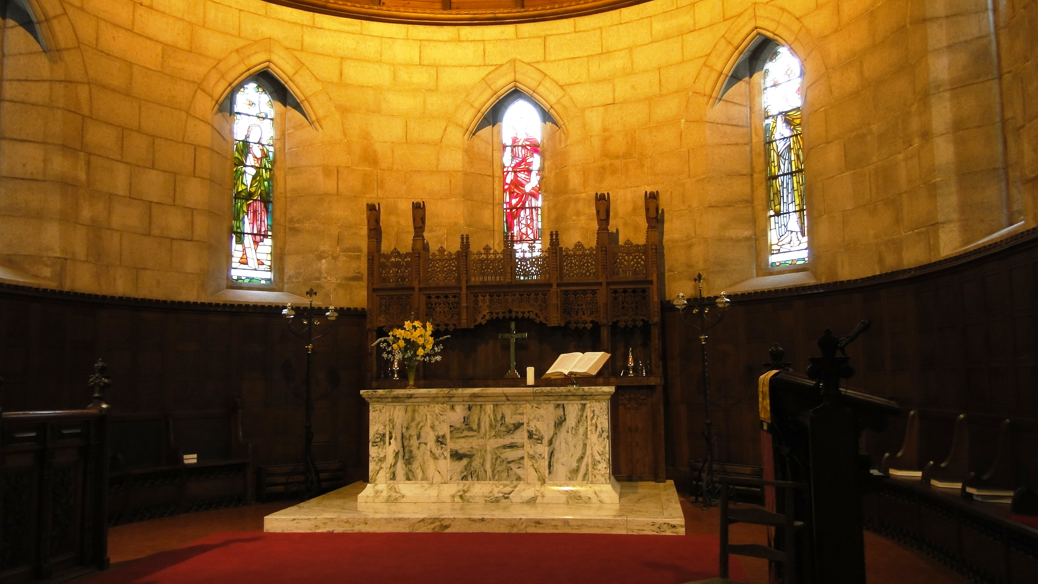 Interior of Crathie Church, Crathie, near Balmoral, Scotland